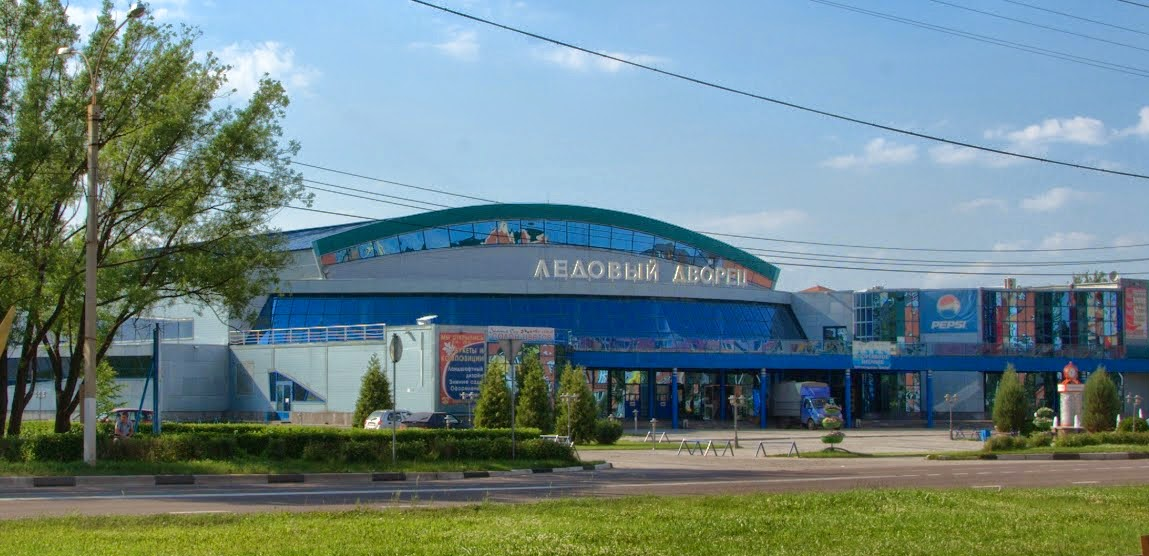 Dmitrov, Moscow Oblast, Russia